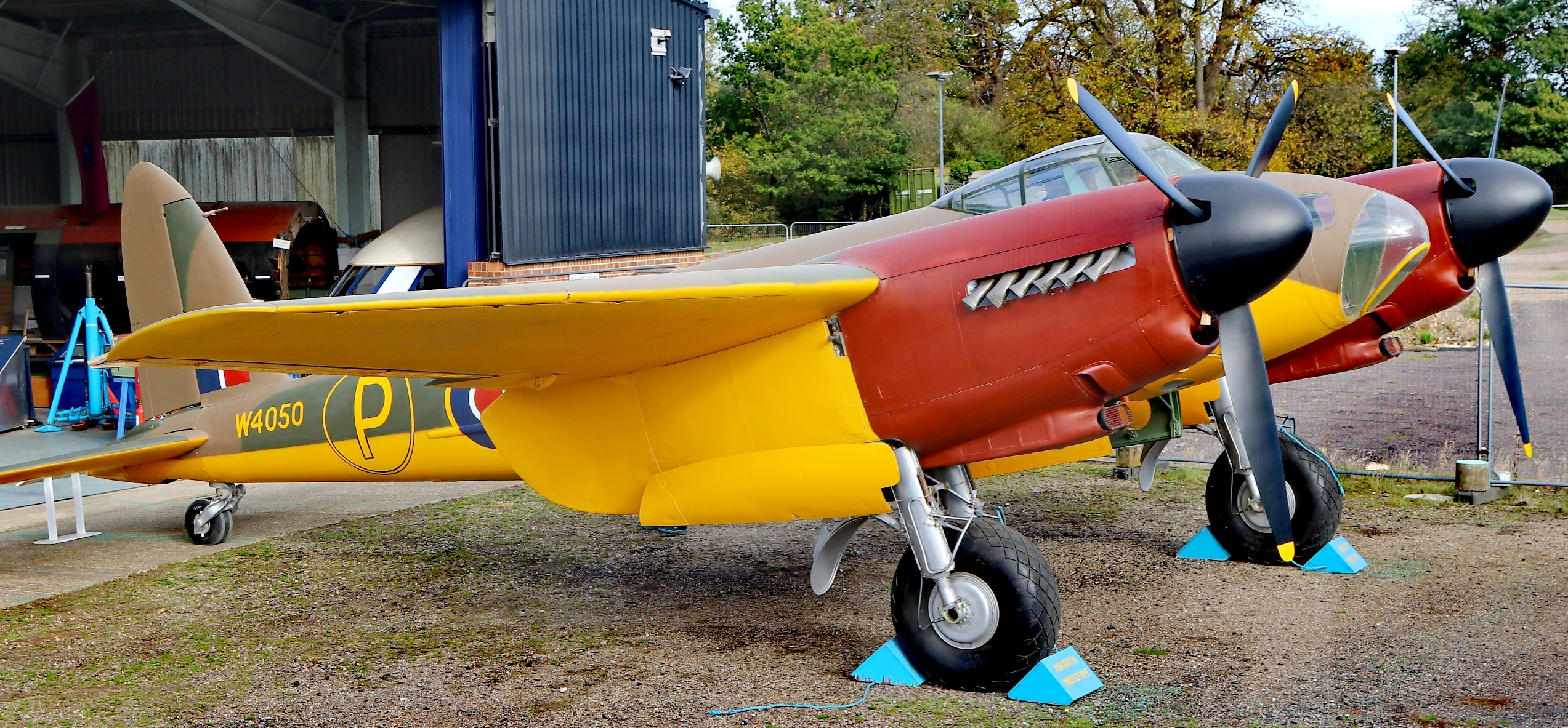 Construction Number is 98001. This aircraft is at de Havilland Aircraft Museum.